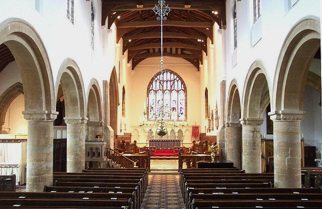 Photograph courtesy of Rex Needle. Website: Bourne in Words and Pictures.